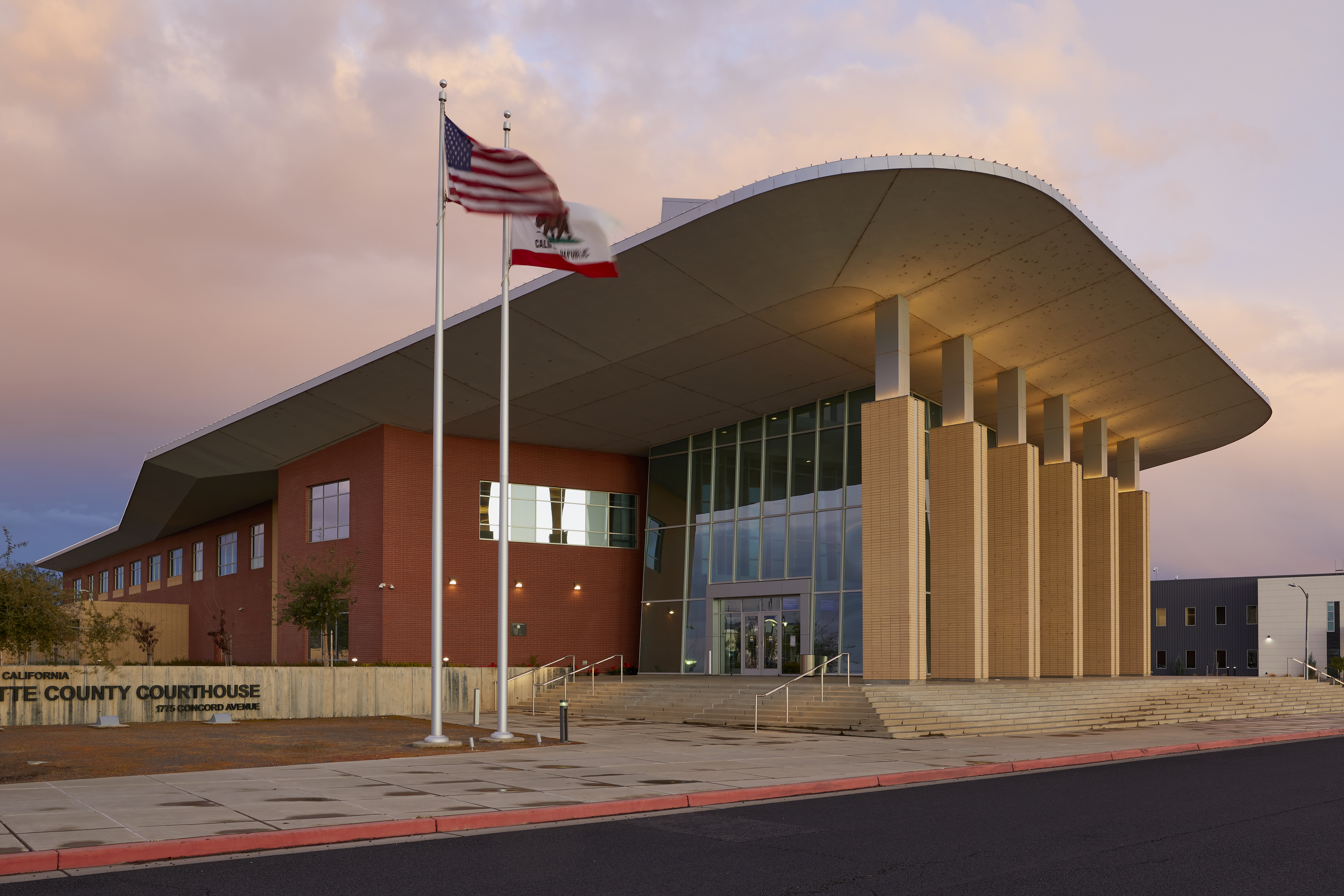 The modern two-story North Butte County Courthouse in the Meriam Park area in Chico, California, on March 15, 2020 (Architect: TSK Architects)